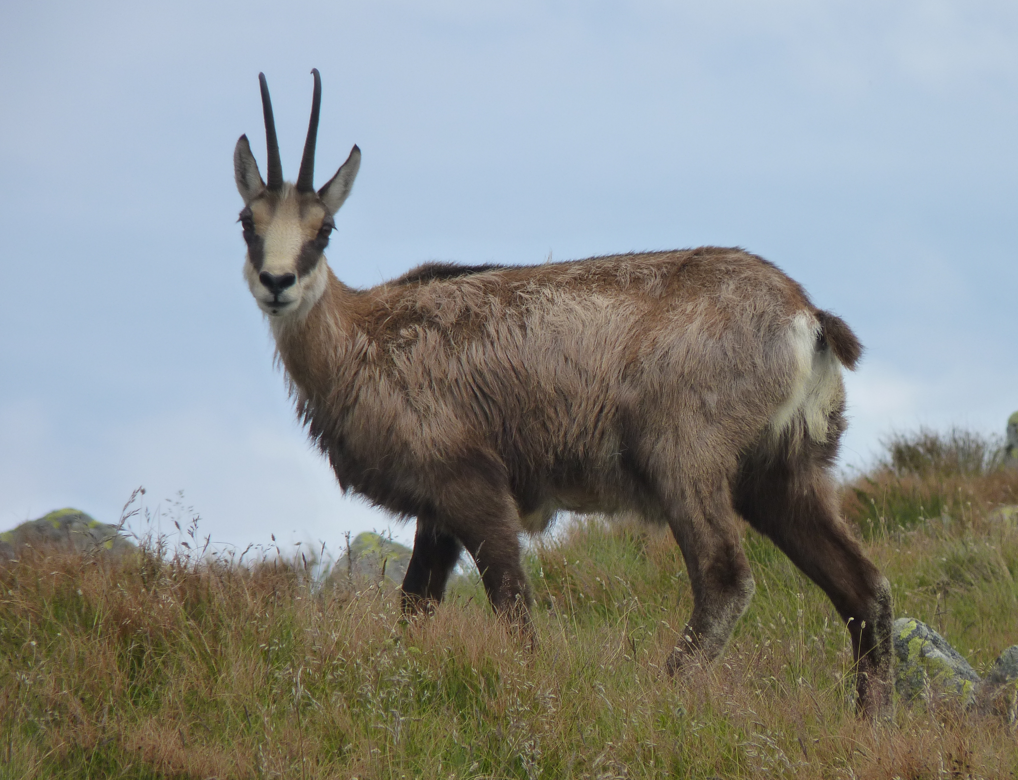 Rupicapra rupicapra tatrica. Dereše (2004 m). Low Tatras, Slovakia